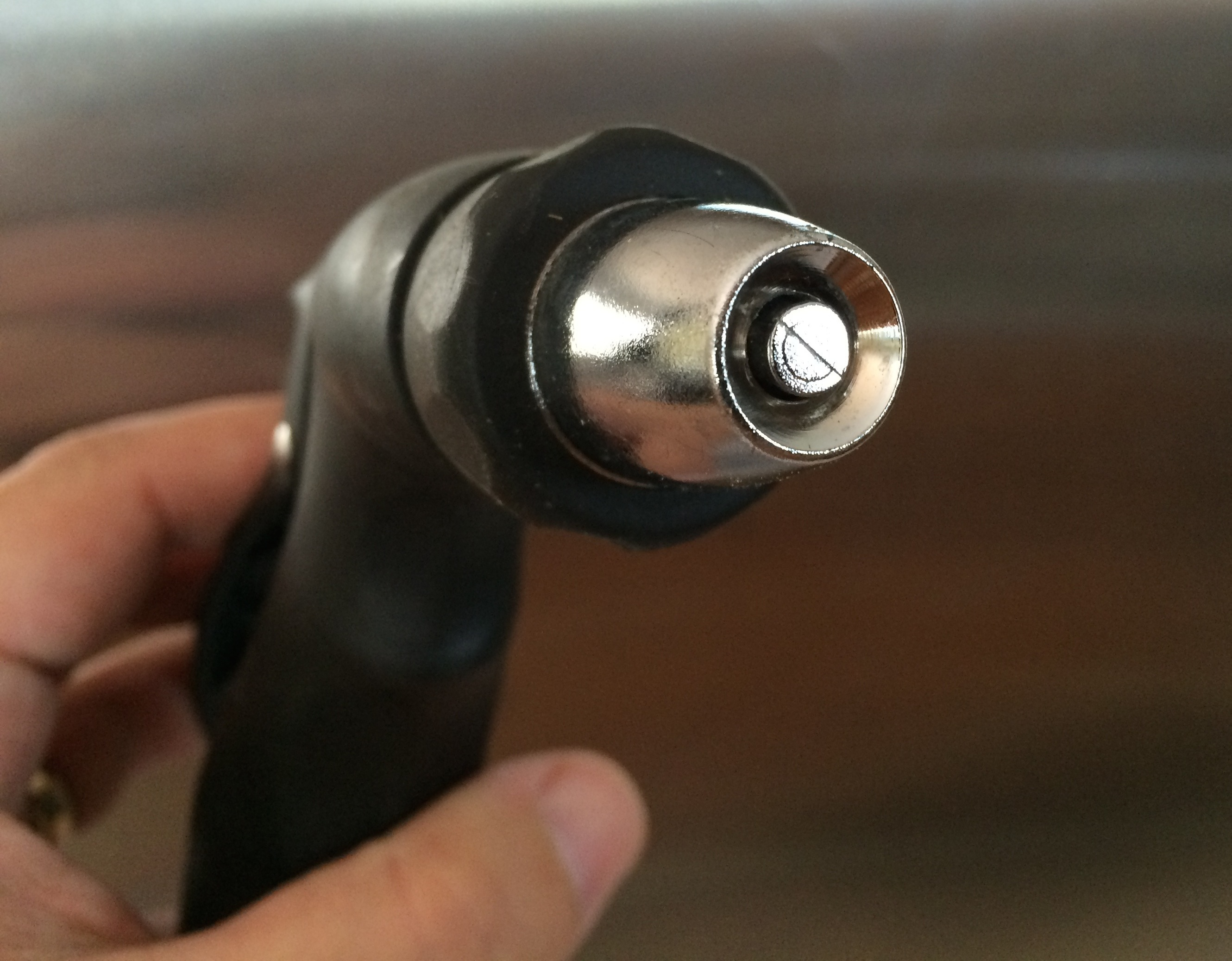 A typical garden sprayer uses an arrangement known as a "plug nozzle". The nozzle is the cone-shaped silver coloured metal object, the plug is the smaller piece of metal centred in the nozzle. Water enters the sprayer from a hose connection on the bottom, just out of view. It flows up through the handle and then out of a hole centred in the nozzle, just visible in this image. The knurled plastic just behind the nozzle can be rotated, moving the entire nozzle forward or back in relation to the plug. When the valve is opened, water flows through the hole and strikes the plug. The plug is shaped so that water striking it is deflected to the side at an angle. If the plug is positioned far from the opening, the water flows around the plug and re-forms into a stream a short distance away. If the plug is positioned close to the opening, the water is deflected into the sides of the nozzle, which deflects it forward again, resulting in a cone shaped spray. The handle on the back of the sprayer is connected to a valve inside the nozzle, which moves backward to block the hole. A spring keeps it pressed into the "closed" position when pressure on the handle is released. The same basic system has been proposed for a type of rocket nozzle, allowing it to adjust the exhaust stream to account for changes in atmospheric density as the rocket climbs.